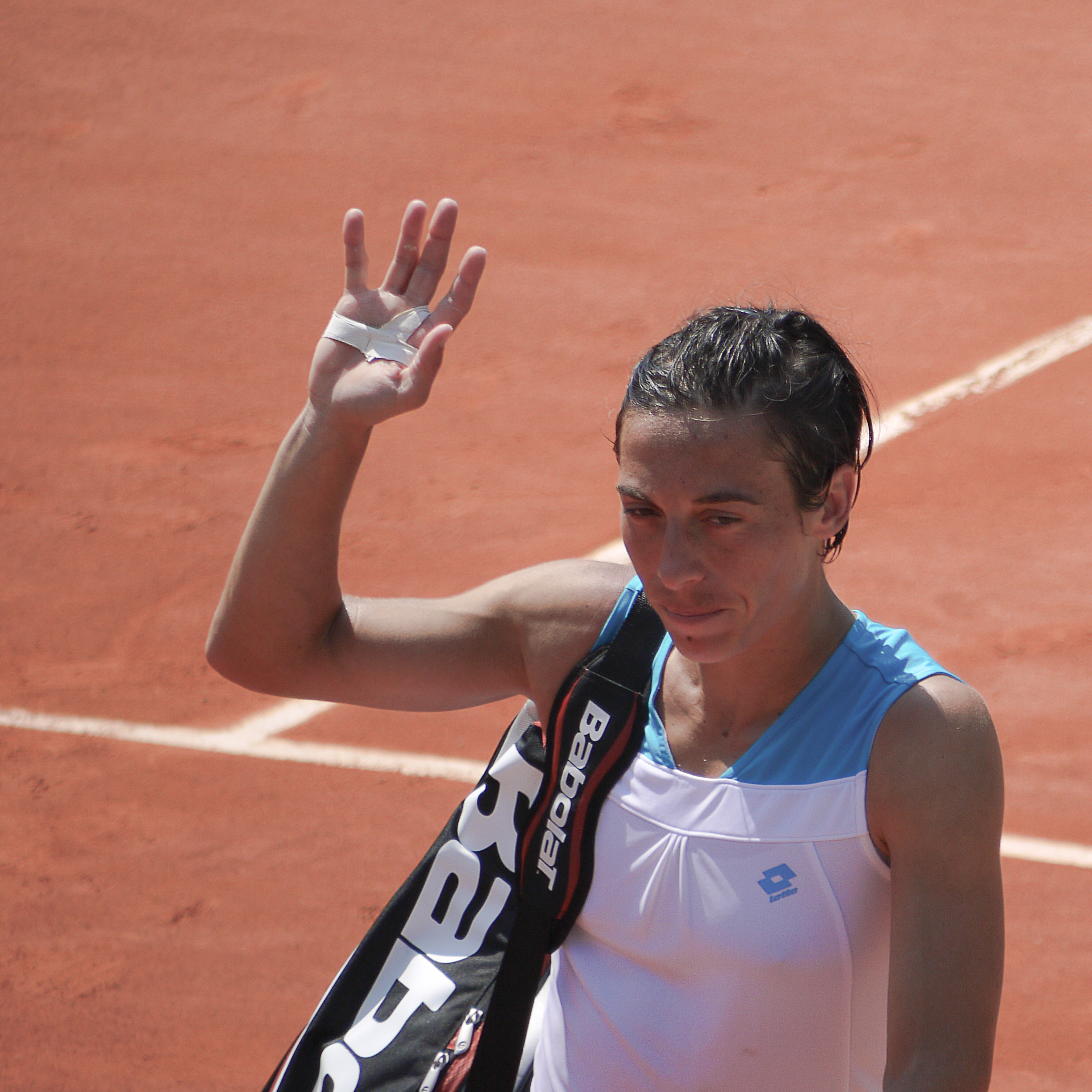 1er tour Roland Garros 2012 : Francesca Schiavone (ITA) def. Kimiko Date-Krumm (JPN)